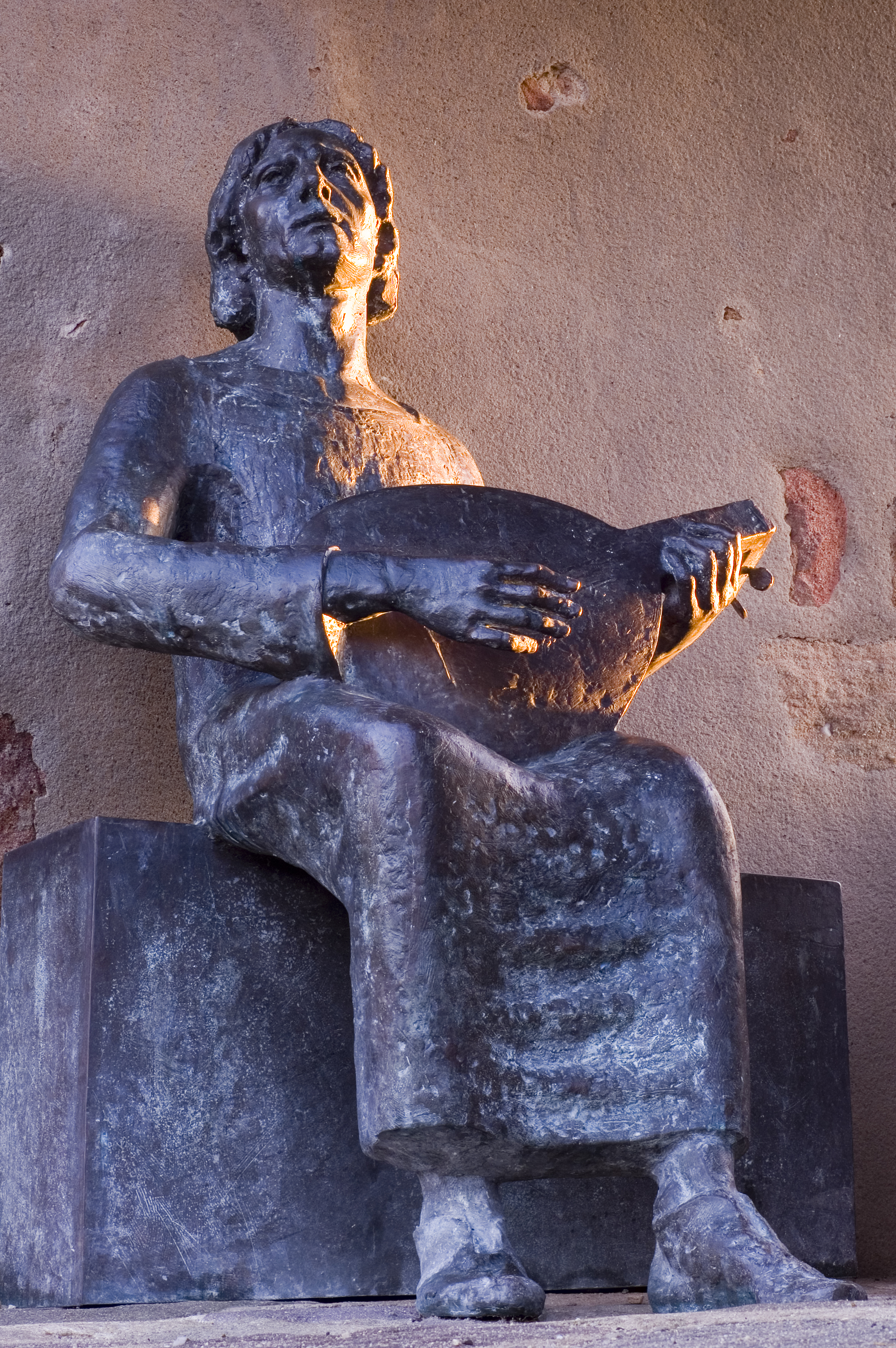 800 years ago Wolfram von Eschenbach sang in his epic poetry Parzival about the bad condition of the joust meadow of castle Abenberg. Today his statue is watching over the condition of its meadow